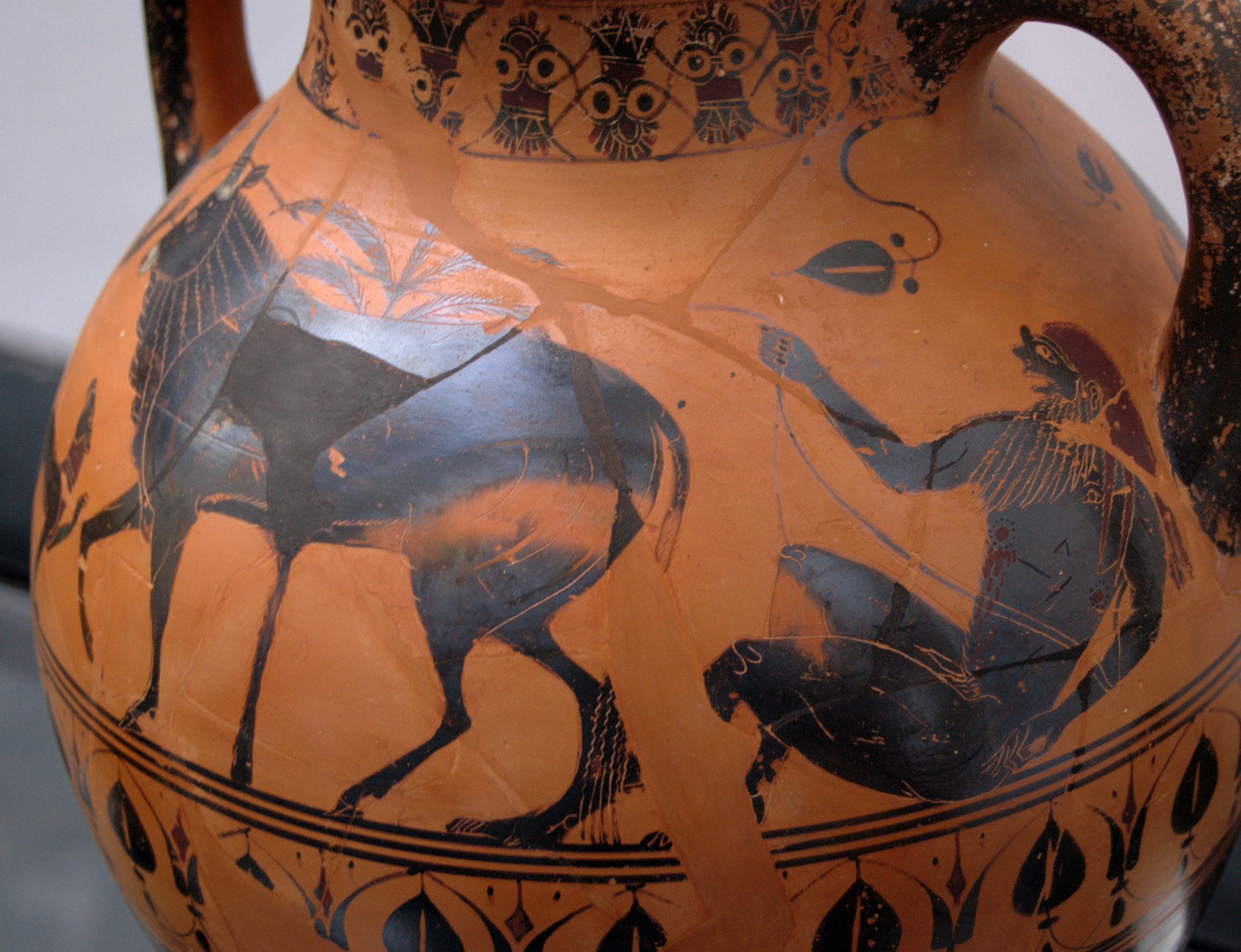 Io (as cow) and Argus. Side A from a Greek black-figure amphora, 540–530 BC. Found in Italy.